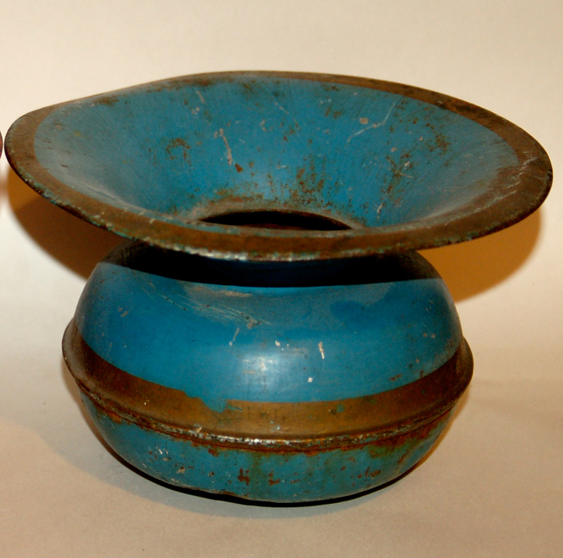 Late 19th or early 20th century polychromed toleware spitoon